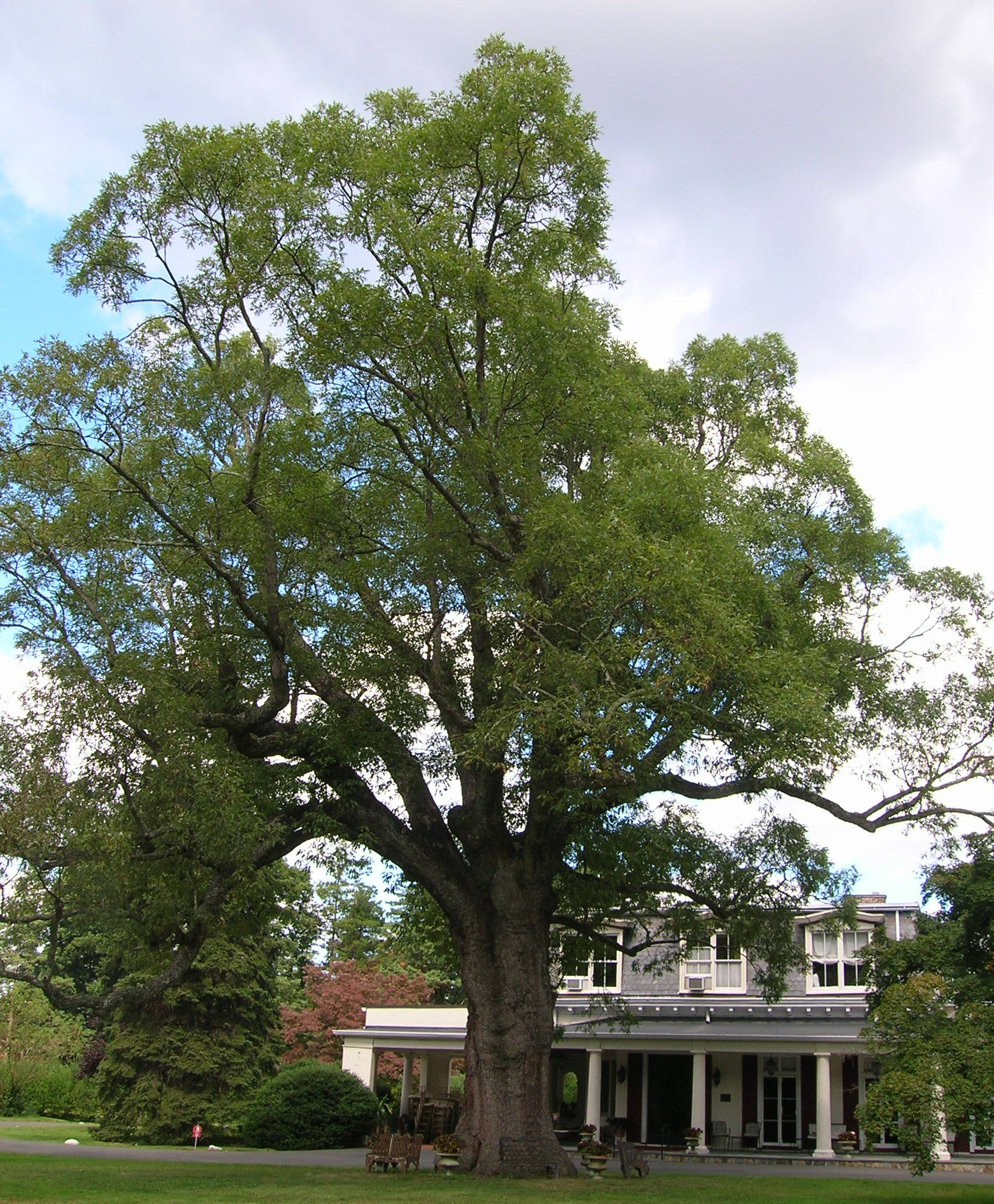 Large old Oak tree located on the grounds of the Scarsdale Woman's Club in Scarsdale, NY. Photo was taken in September 2012.